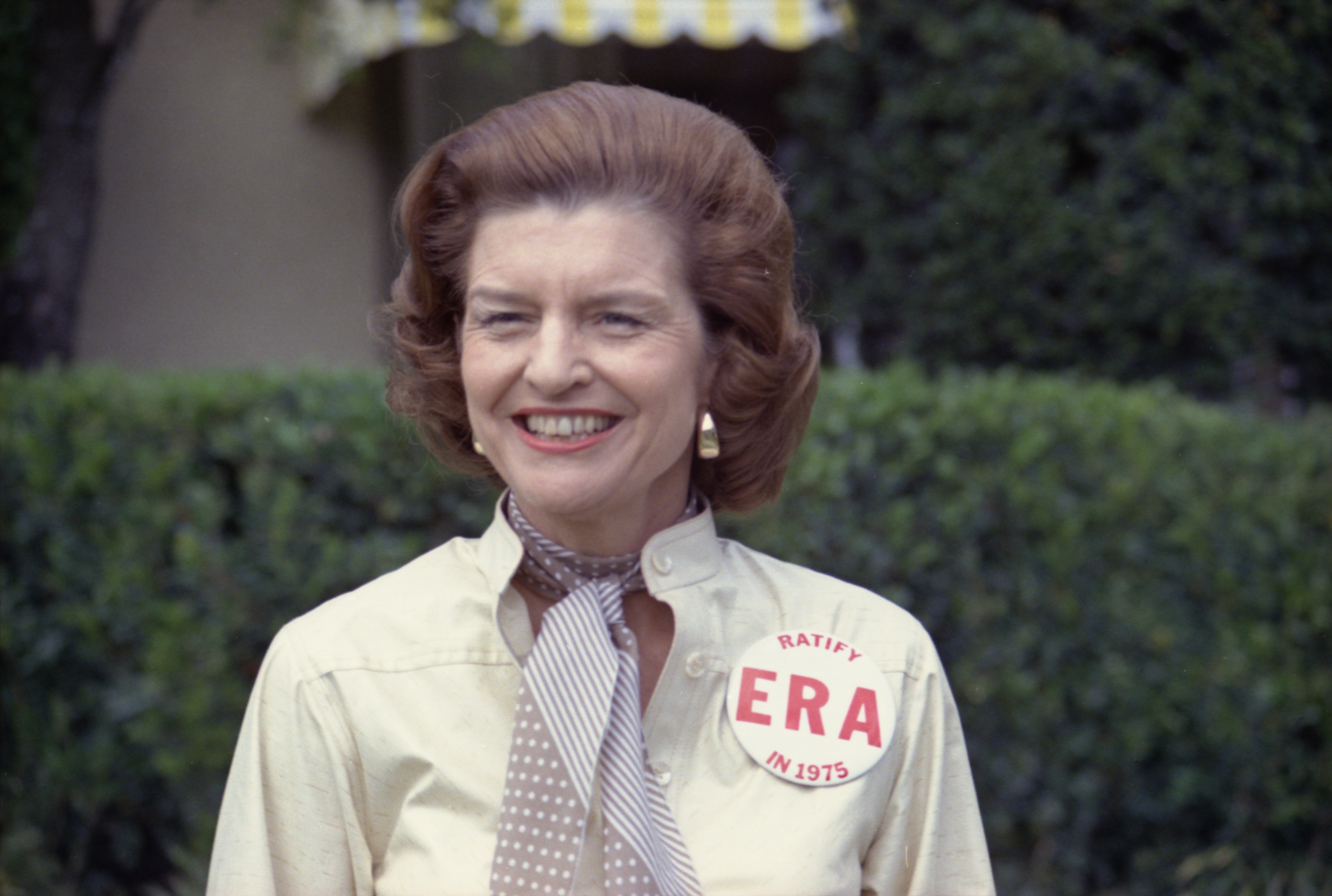 First Lady Betty Ford sports a button expressing her support for ratification of the Equal Rights Amendment while taking some personal time as President Ford plays in the Jackie Gleason Inverrary Classic Celebrities Golf Tournament, Hollywood, Florida.